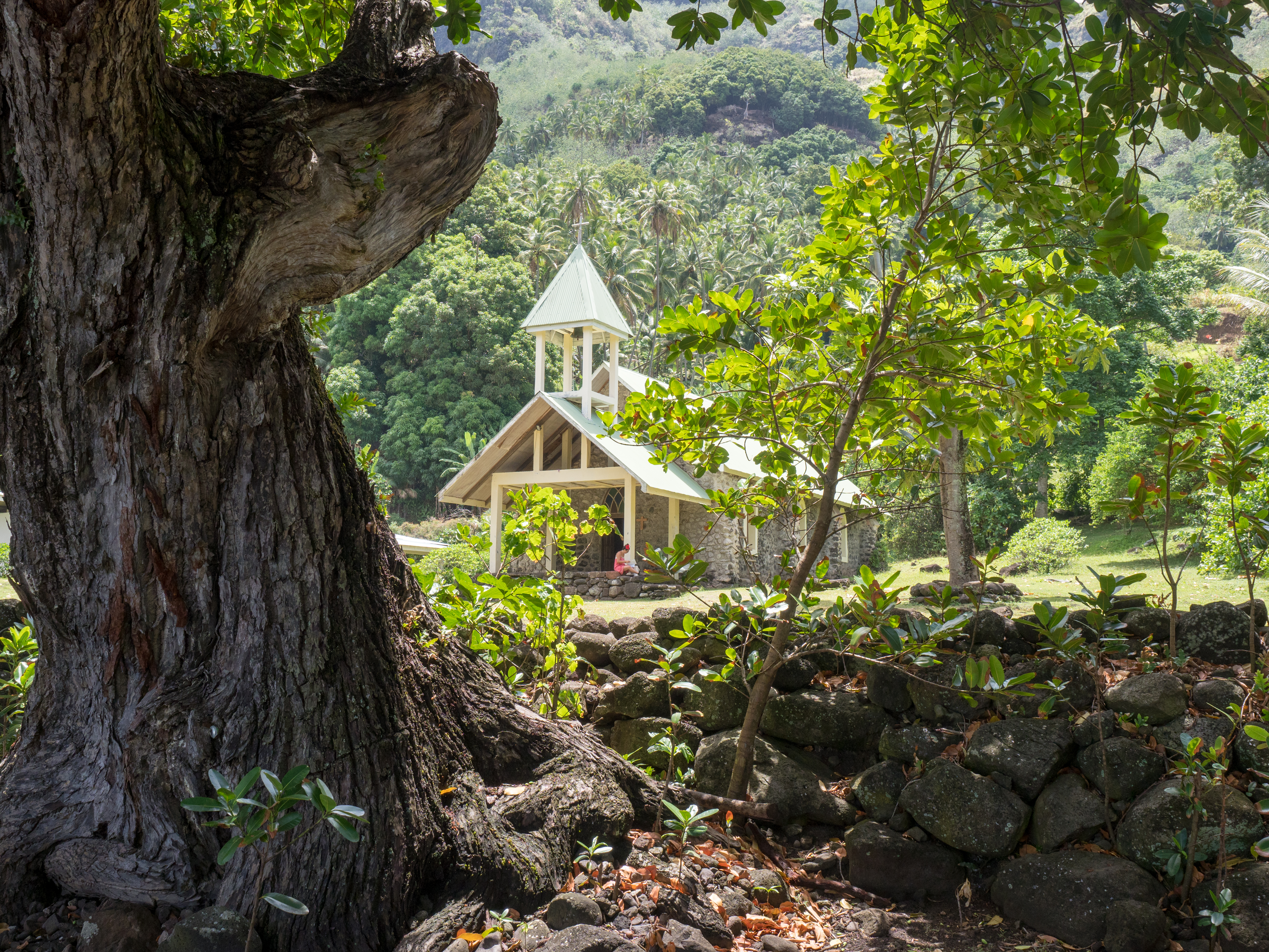 Church Tahuata French Polynesia